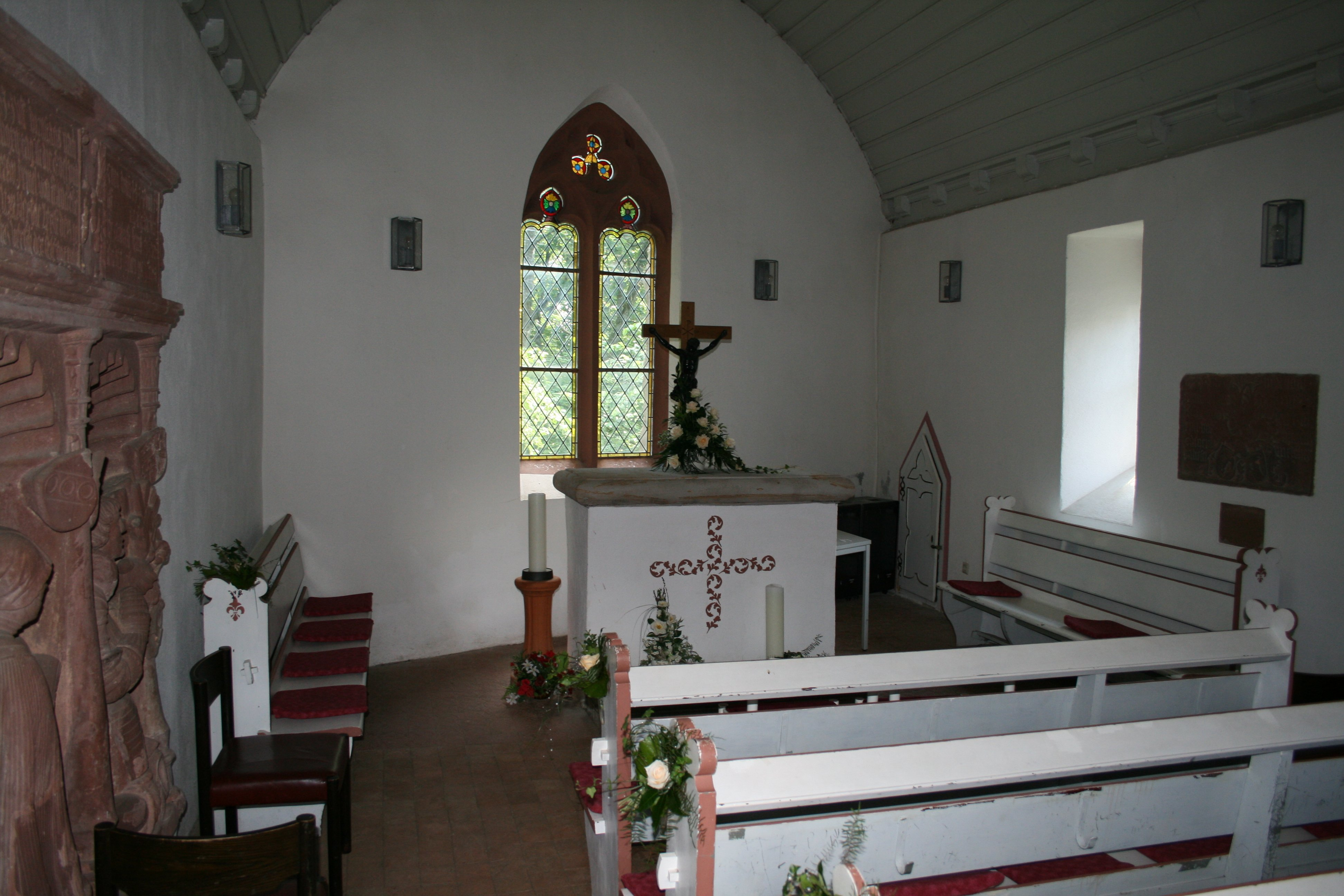 Insideview of the chapel